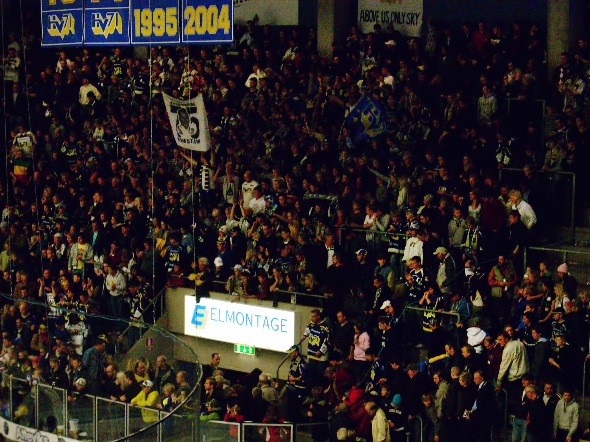 HV71 supporters after the Swedish Elite League home game versus Luleå HF. HV71 won the game, 4-0.